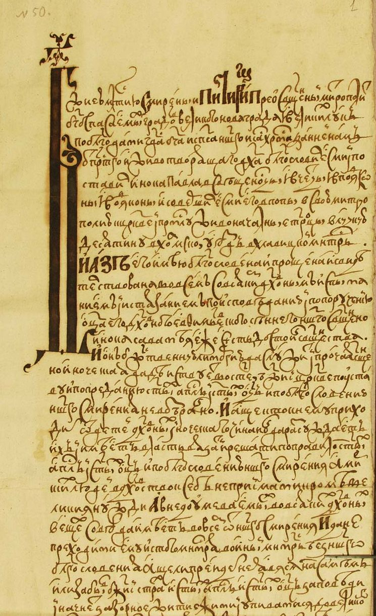 The ordination certificate (stavlenaya gramota) of hieromonk Pavel, issued to him by Metropolitan Bishop Pitirim of Novgorod and Velikiye Luki upon Pavel's ordination as a priest on May 8, 1665